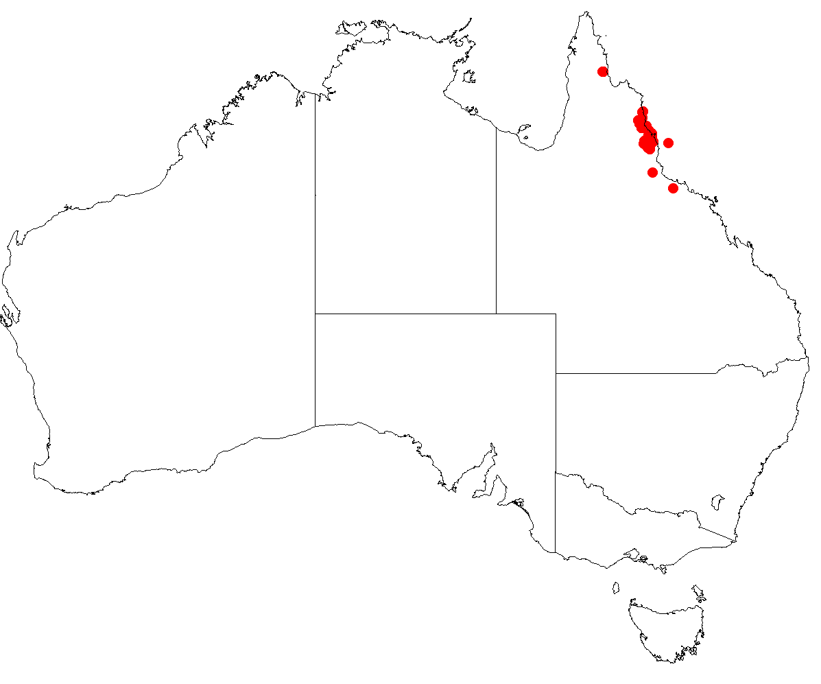 Australian distribution of Amyema queenslandica based on download from Australasian Virtual Herbarium May 9, 2018